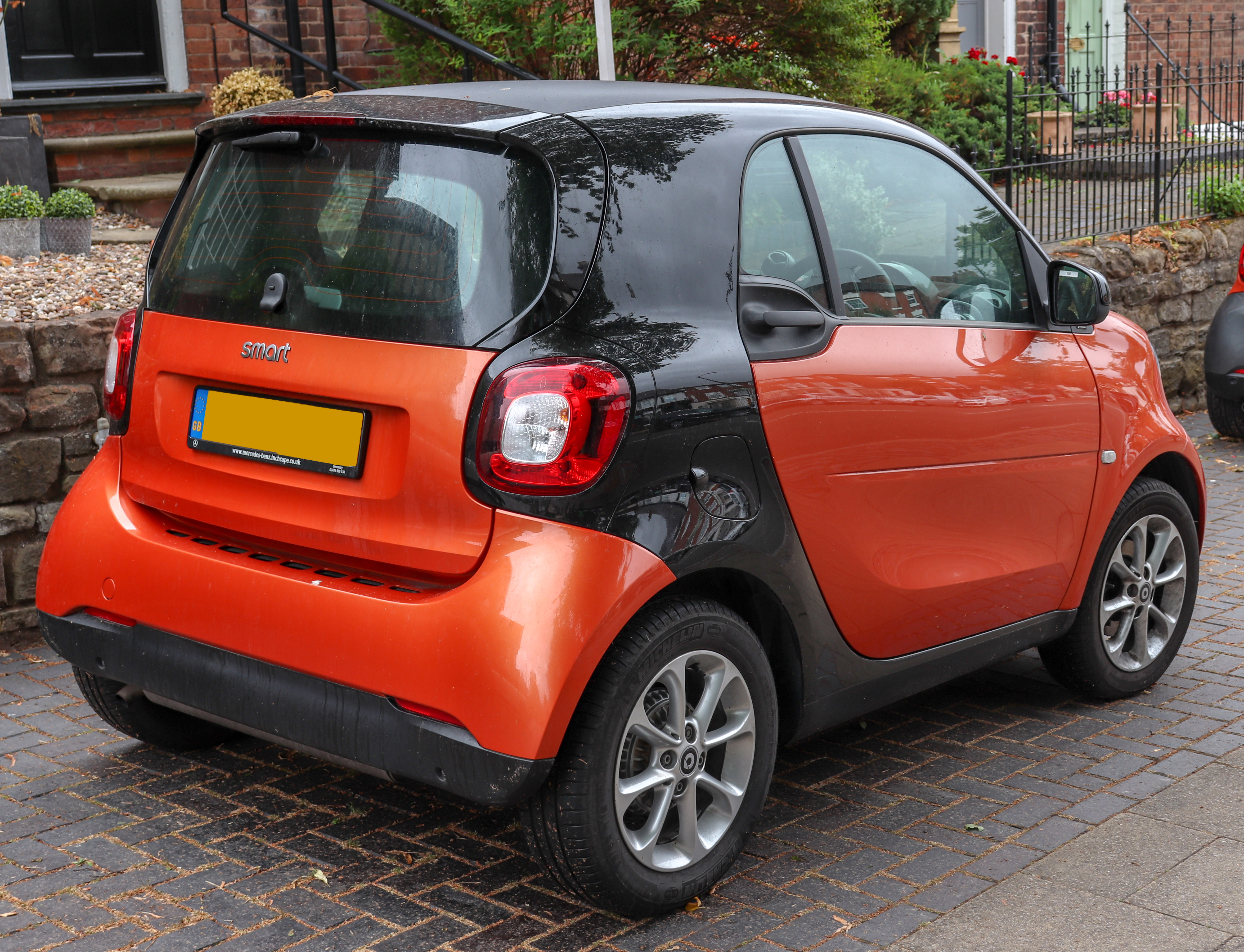 2016 Smart Fortwo Passion Automatic 1.0 Rear Taken in Warwick